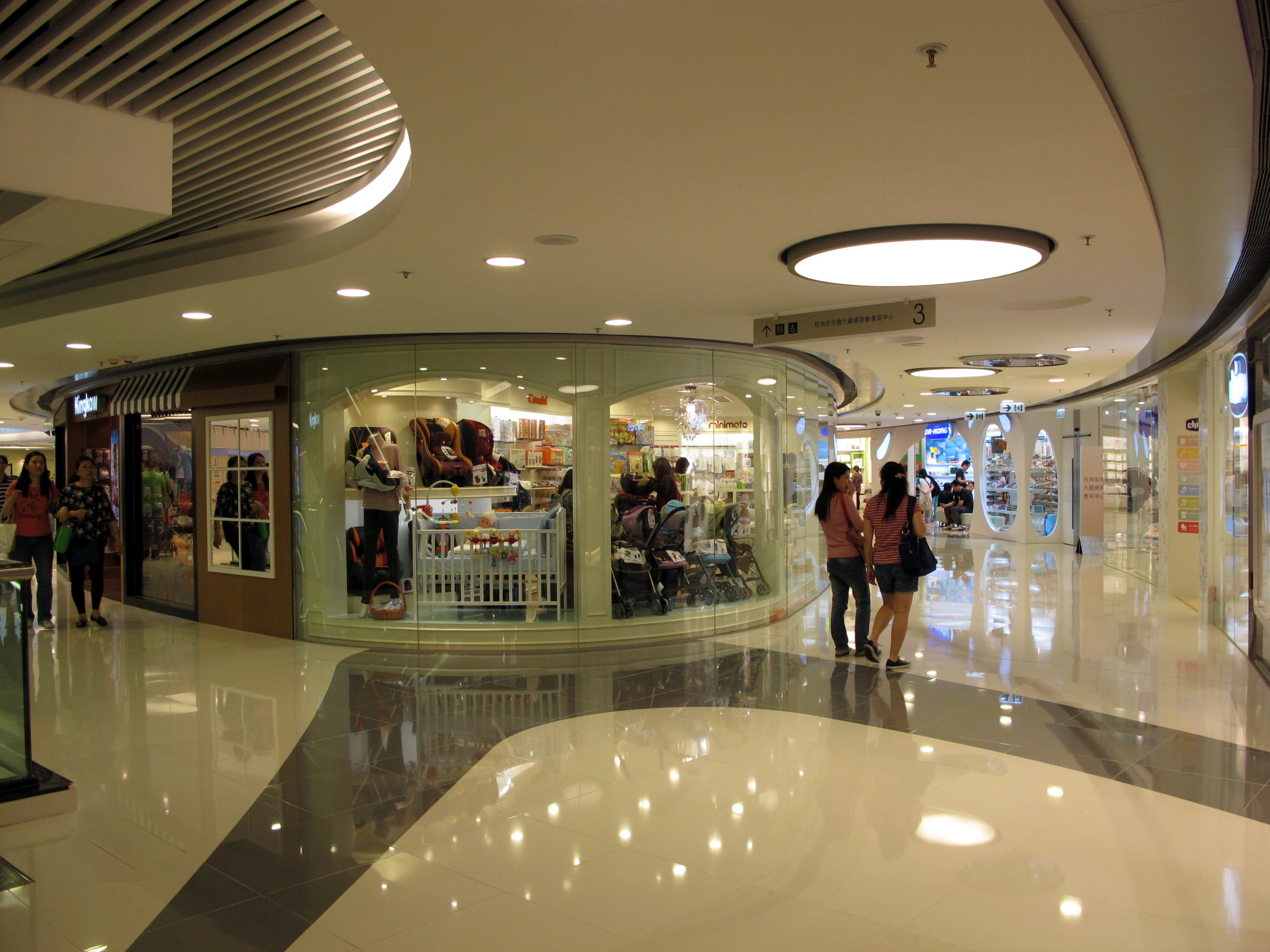 Grand Century Place Level 3